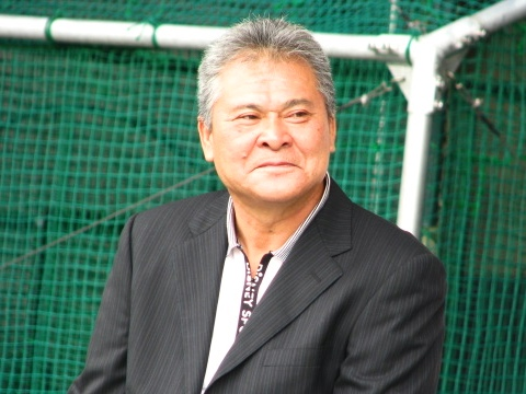 Yūtarō Imai cropped from File:IMAI Yutaro 20090711 01.jpg